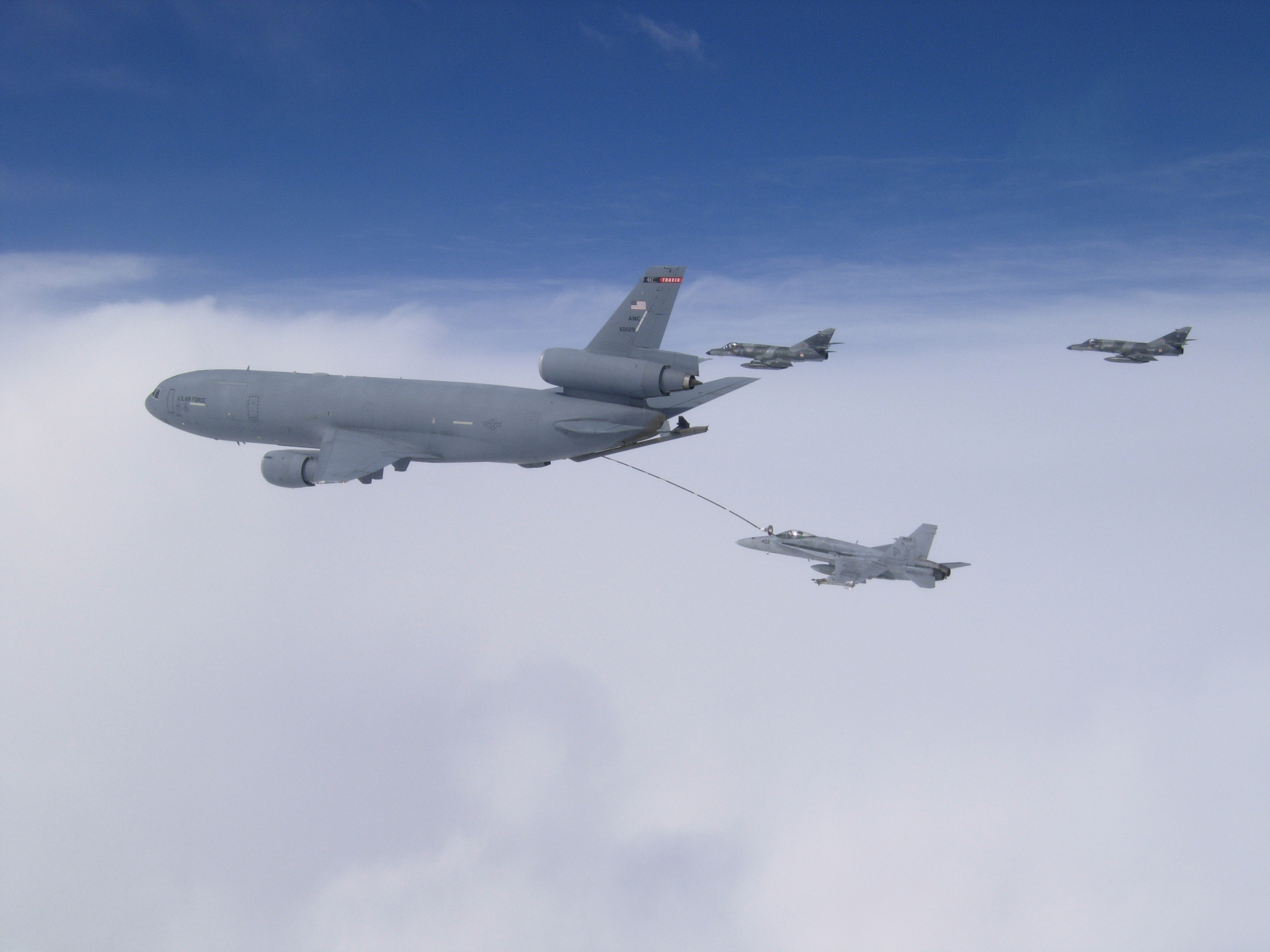 AFGHANISTAN (March 16, 2007) - An F/A-18C Hornet aircraft from the "Argonauts" of Strike Fighter Squadron (VFA) 147 embarked aboard the Nimitz-class aircraft carrier USS John C. Stennis (CVN 74) conducts an in flight refueling with an Air Force KC-10 Extender aircraft from Travis Air force Base, Calif., over Afghanistan. Two French Dassault-Breguet Super Etendard aircraft deployed from the French Navy FNS Charles de Gaulle (R 91) await refueling operations off the tankers starboard side. U.S. Navy photo by Cmdr. Dan Cheever (RELEASED)